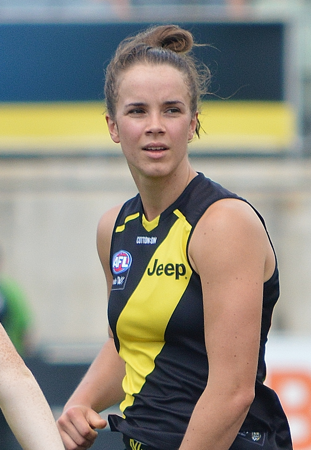 Gabby Seymour with Richmond during the round 3, 2020 AFL Women's match against North Melbourne at Ikon Park.